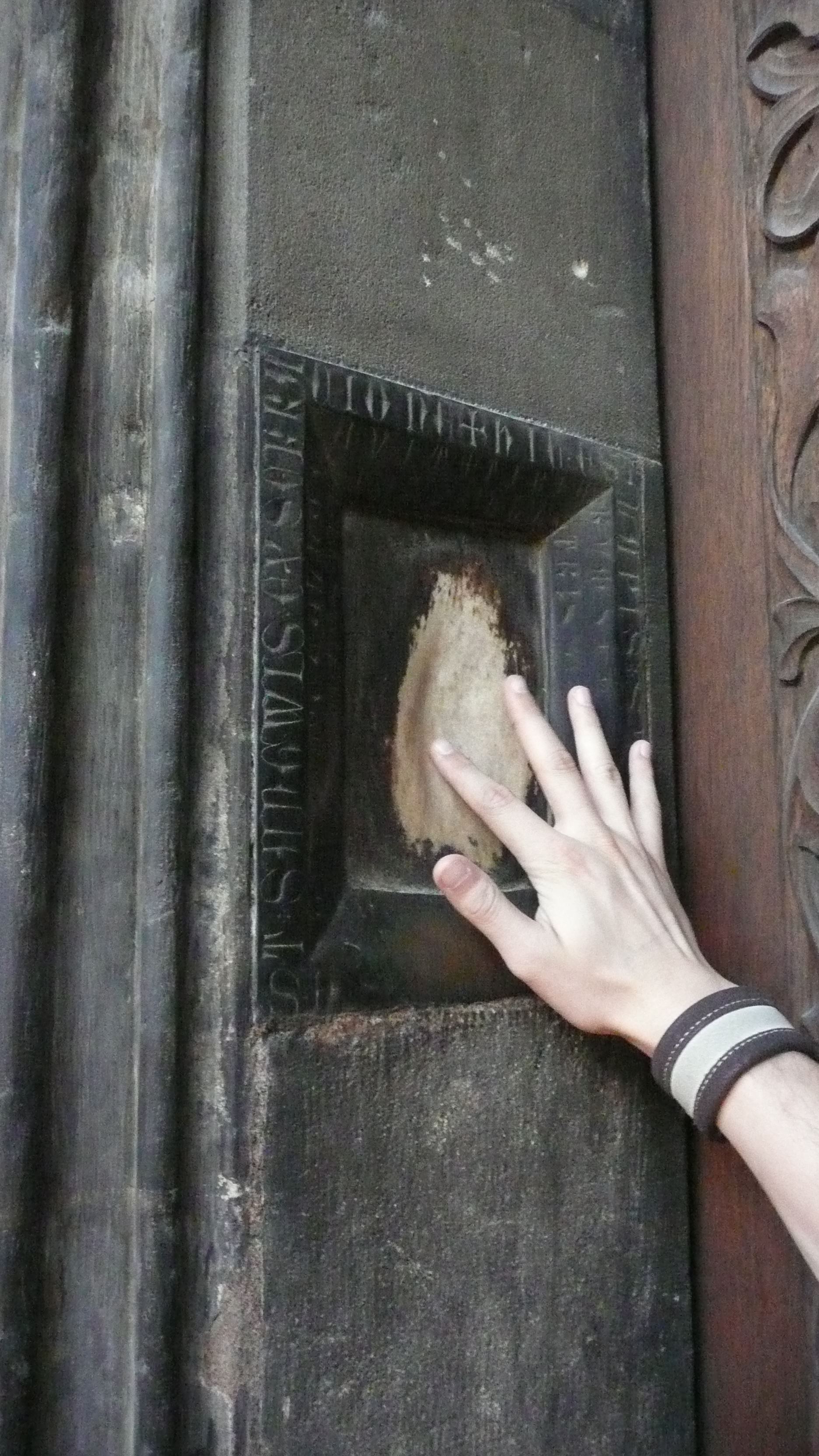 St. Stephen's Cathedral, Vienna. Bishop's gate: Stone, on which saint Coloman got martyred, indented by touchments of numerous pilgrims